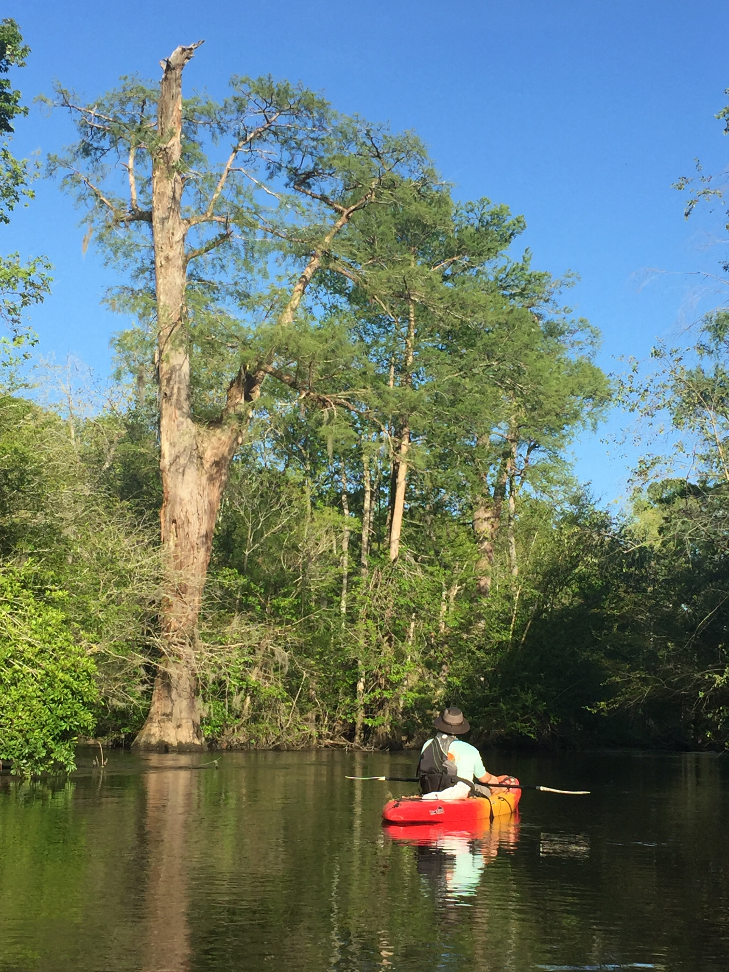 Photo of the Lynches River in the coastal plain of South Carolina.